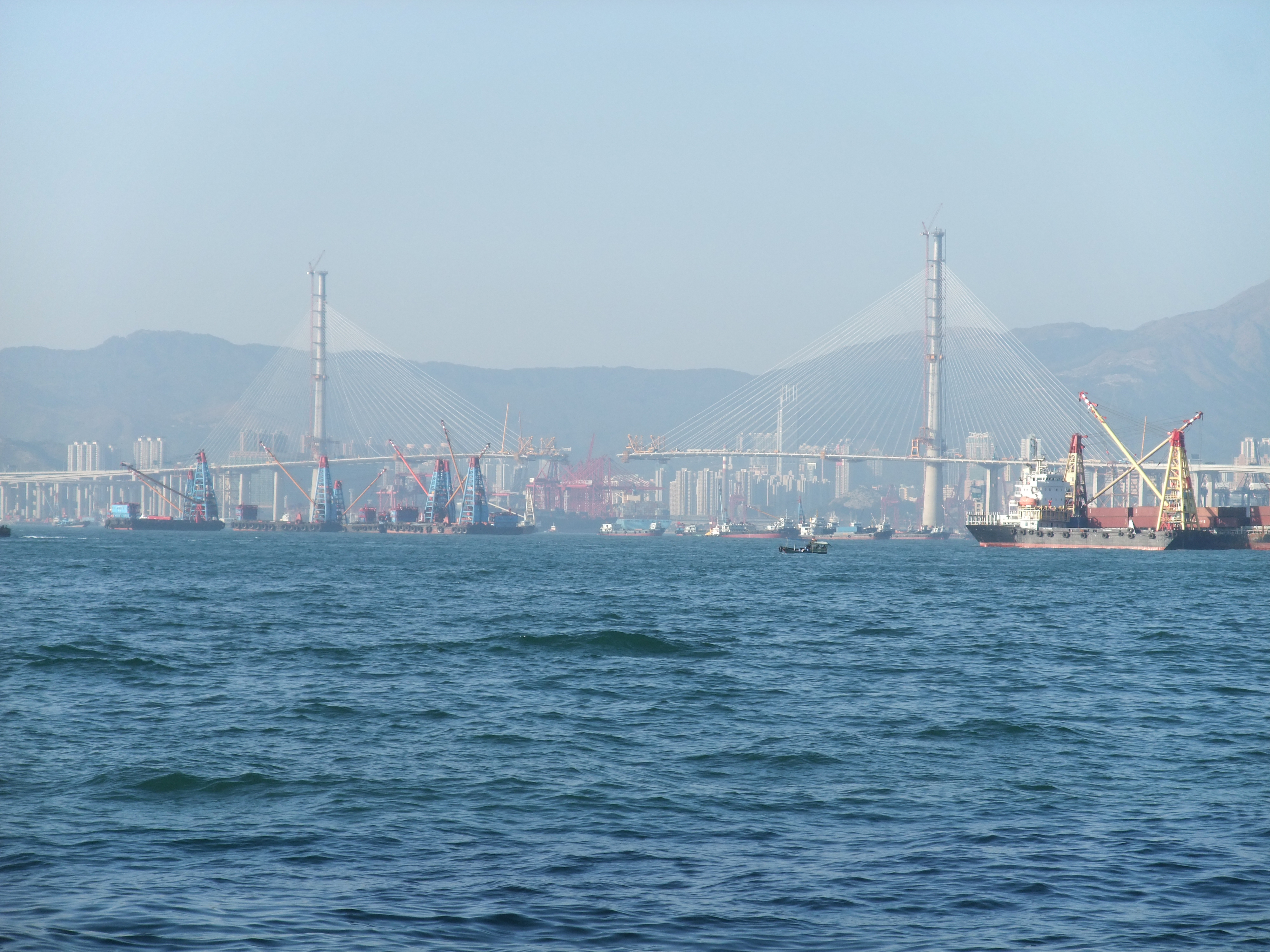 Photo of Stonecutters Bridge